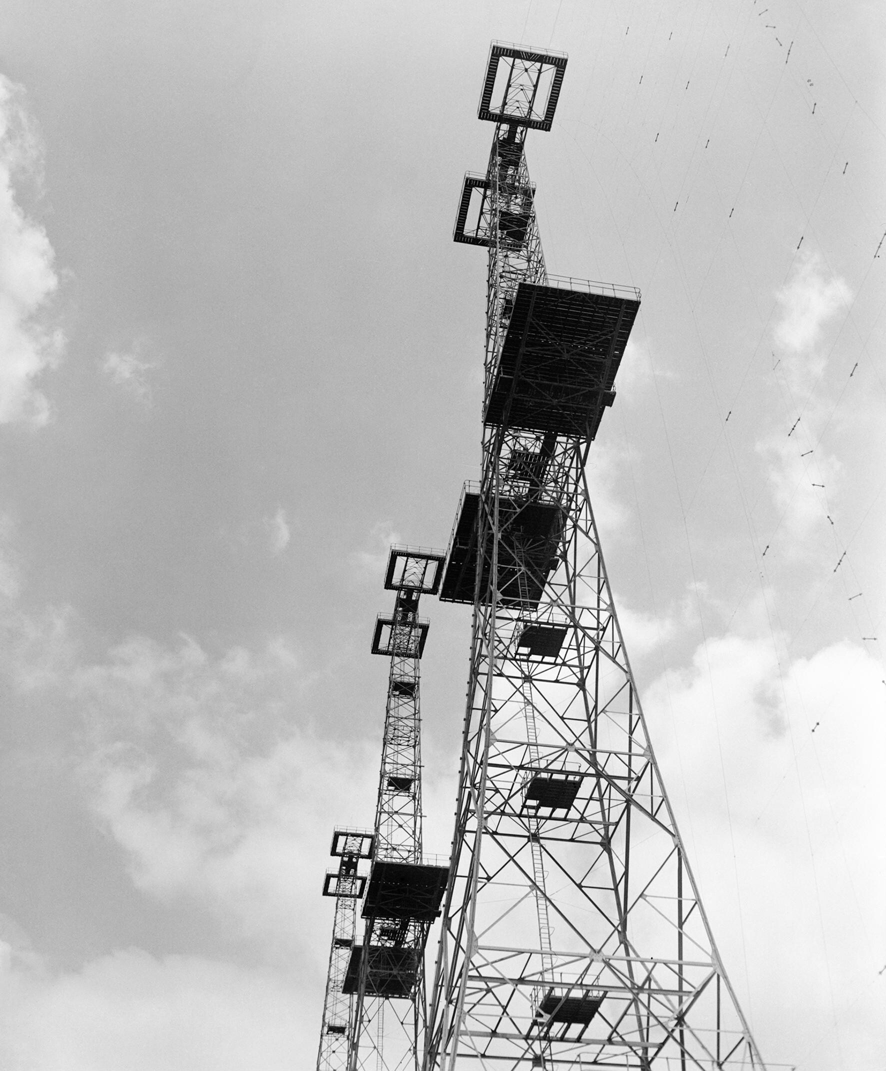 The 360ft transmitter towers at Bawdsey Chain Home radar station, Suffolk, May 1945. Chain Home: AMES Type 1 CH East Coast, 360ft transmitter aerial towers at Bawdsey CH station, Suffolk.